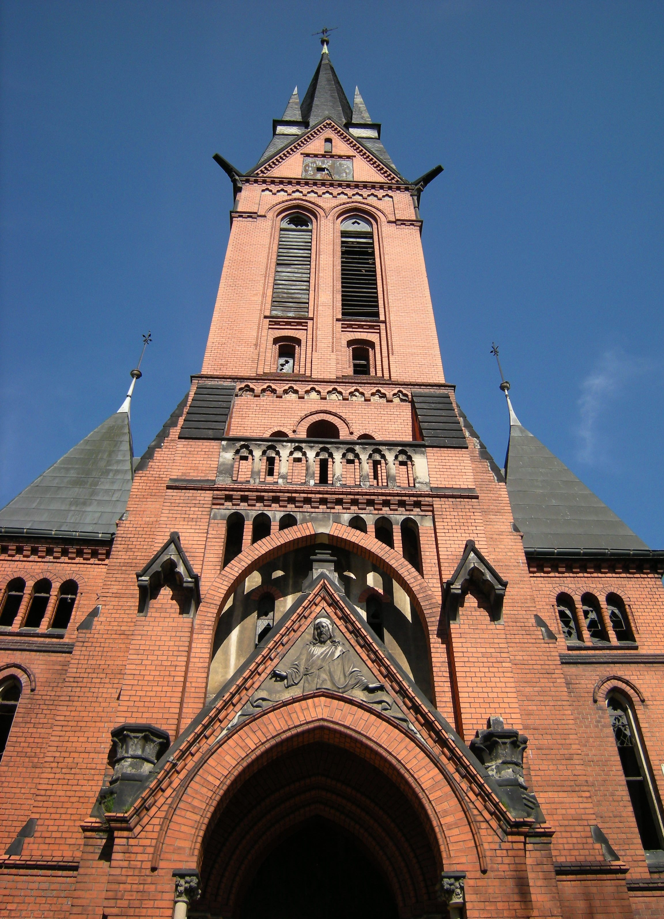 Former German Lutheran Church ("Red Church") in Varnsdorf, Děčín District, Czech Republic